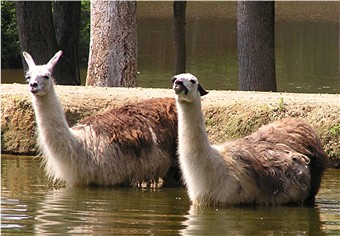 Llamas